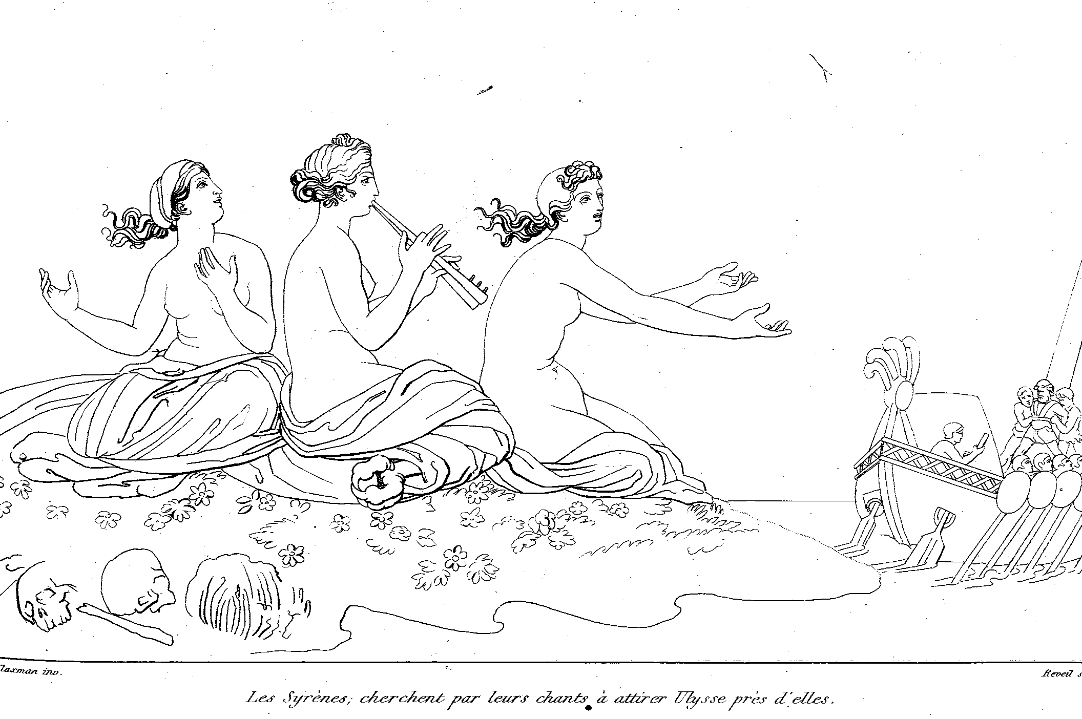 Illustrations of Odyssey